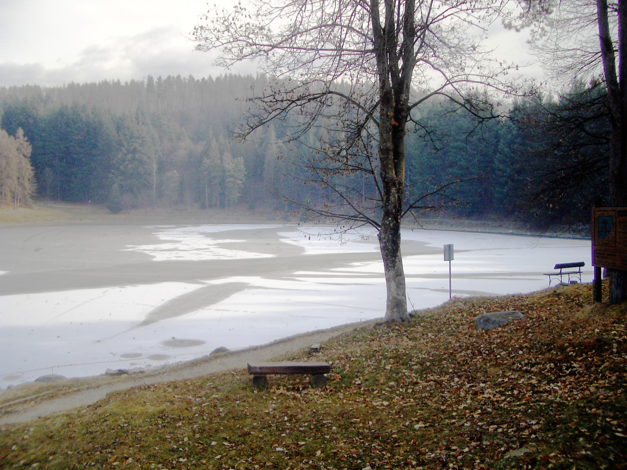 Meugliano lake in the winter time